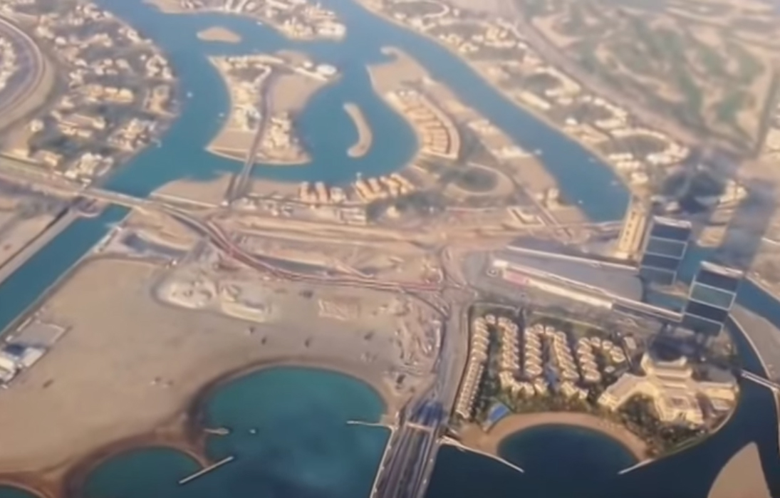 Aerial shot of West Bay Lagoon in 2014 in Doha, Qatar.